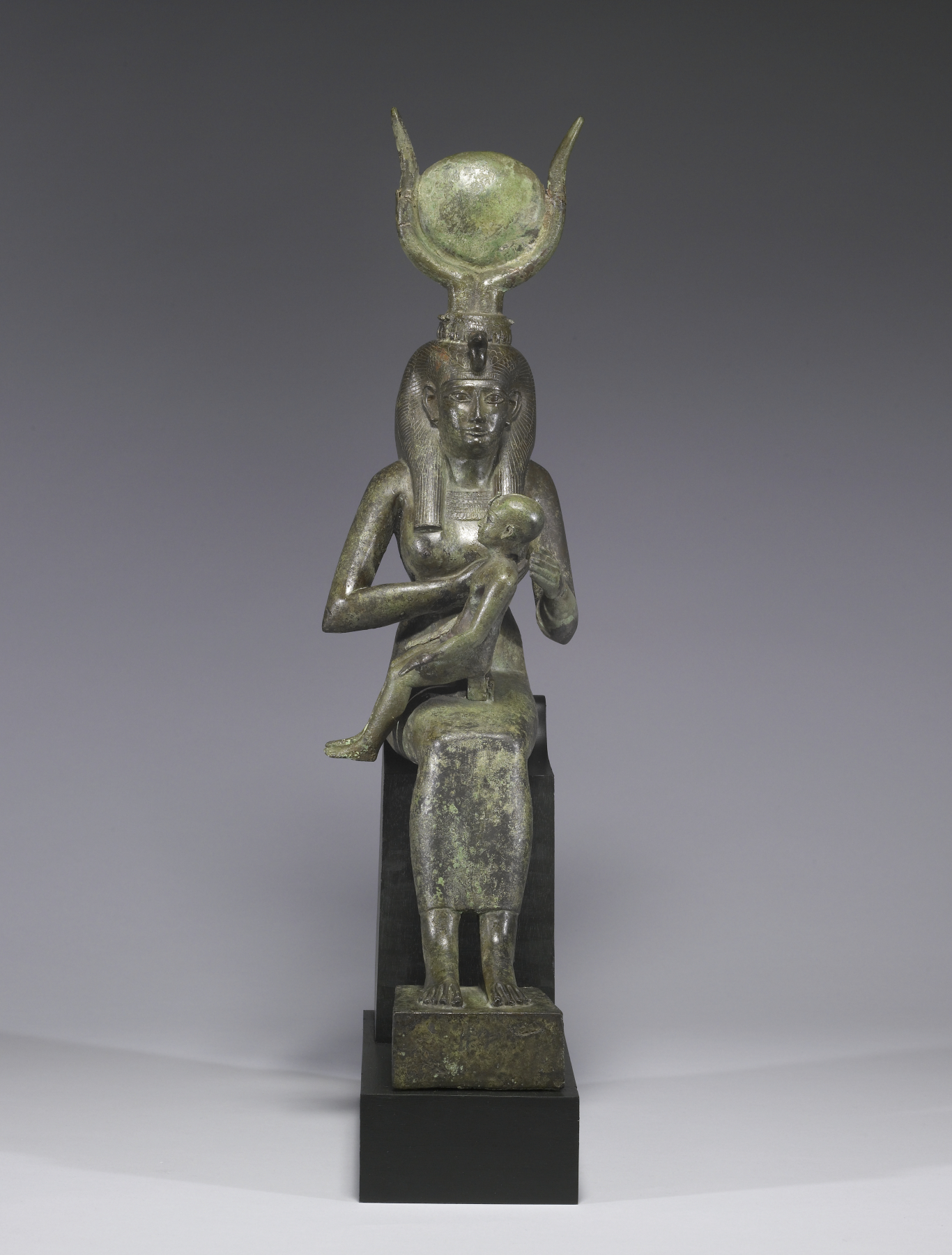 For the ancient Egyptians, the goddess Isis was the model of the loyal wife and mother, as well as a powerful magician. She was the wife of the god Osiris and the mother of Horus. Just as the king of Egypt was associated with Horus in life and Osiris in death, queens of Egypt were linked with Isis, and their visual representations have similarities with the goddess. For example, both may be depicted wearing the vulture headdress shown here. The crown composed of a sun-disk and cow horns originally belonged to Hathor, but was assimilated by Isis.